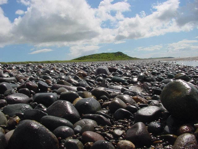 Stony beach, near Swarthy Hill. There is a great variety of beach materials along the Solway coast; here, close to the shore, is a stretch of water-worn rounded rocks, further out is clean sand, a couple of km away is exposed sandstone bedrock.